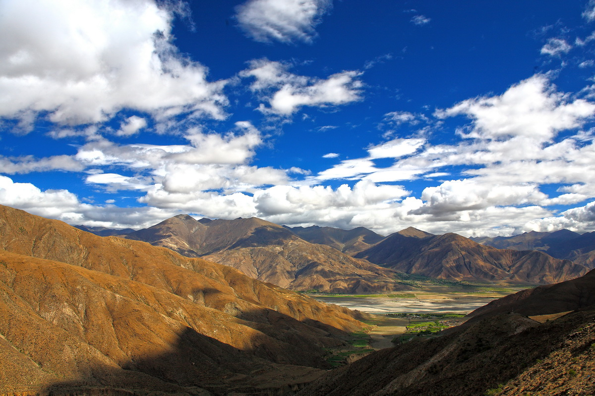 Shigatse Prefecture mountains, Tibet